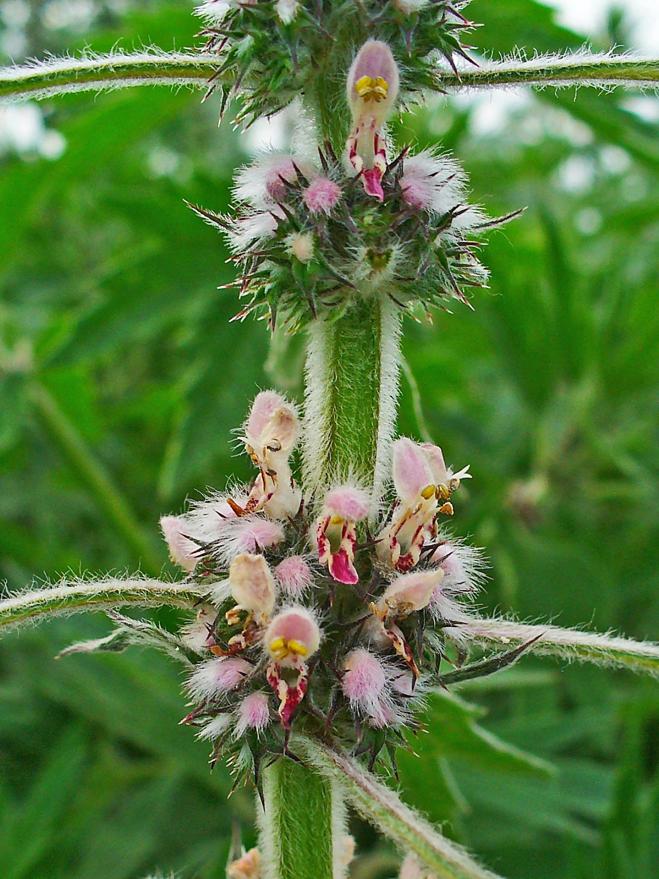 Leonurus cardiaca, Lamiaceae, Motherwort, inflorescences. The fresh, aerial parts collected at bloom are used in homeopathy as remedy: Leonurus cardiaca (Leon.)